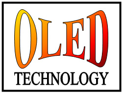 invented nice logo about OLED technology